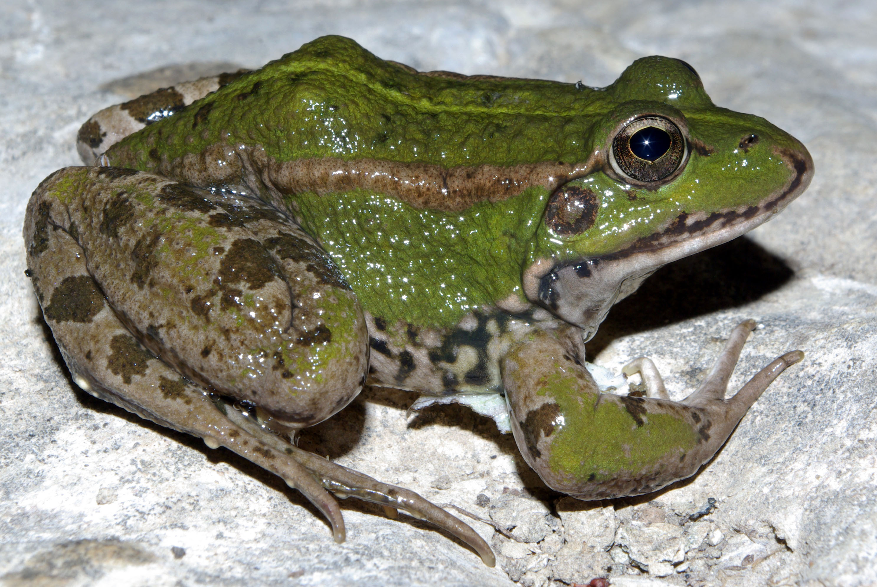 Perez's Frog (Pelophylax perezi). Burgos, Spain.